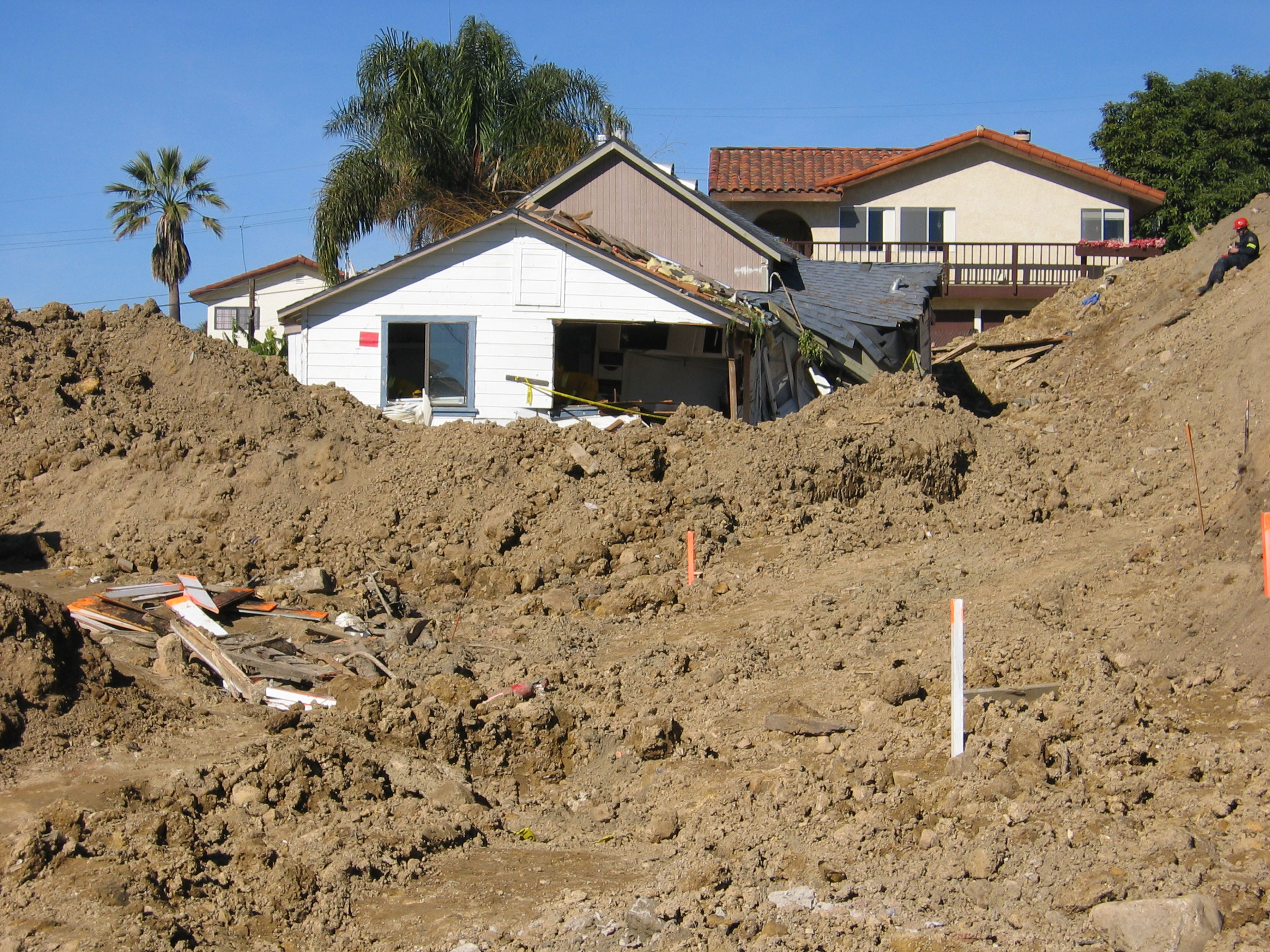 La Conchita, CA, January 15, 2005 -- Damaged buildings are surrounded by mud in La Conchita, California, where winter storms caused fatal landslides that damaged private property and roads. Photo by John Shea / FEMA News Photo